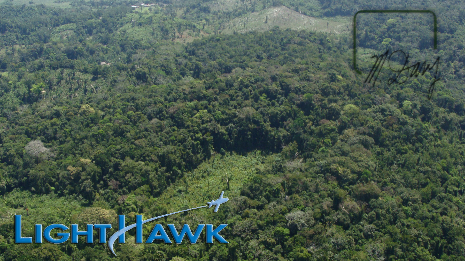 PUNTA MANABIQUE APRIL 2011 3RD POINT